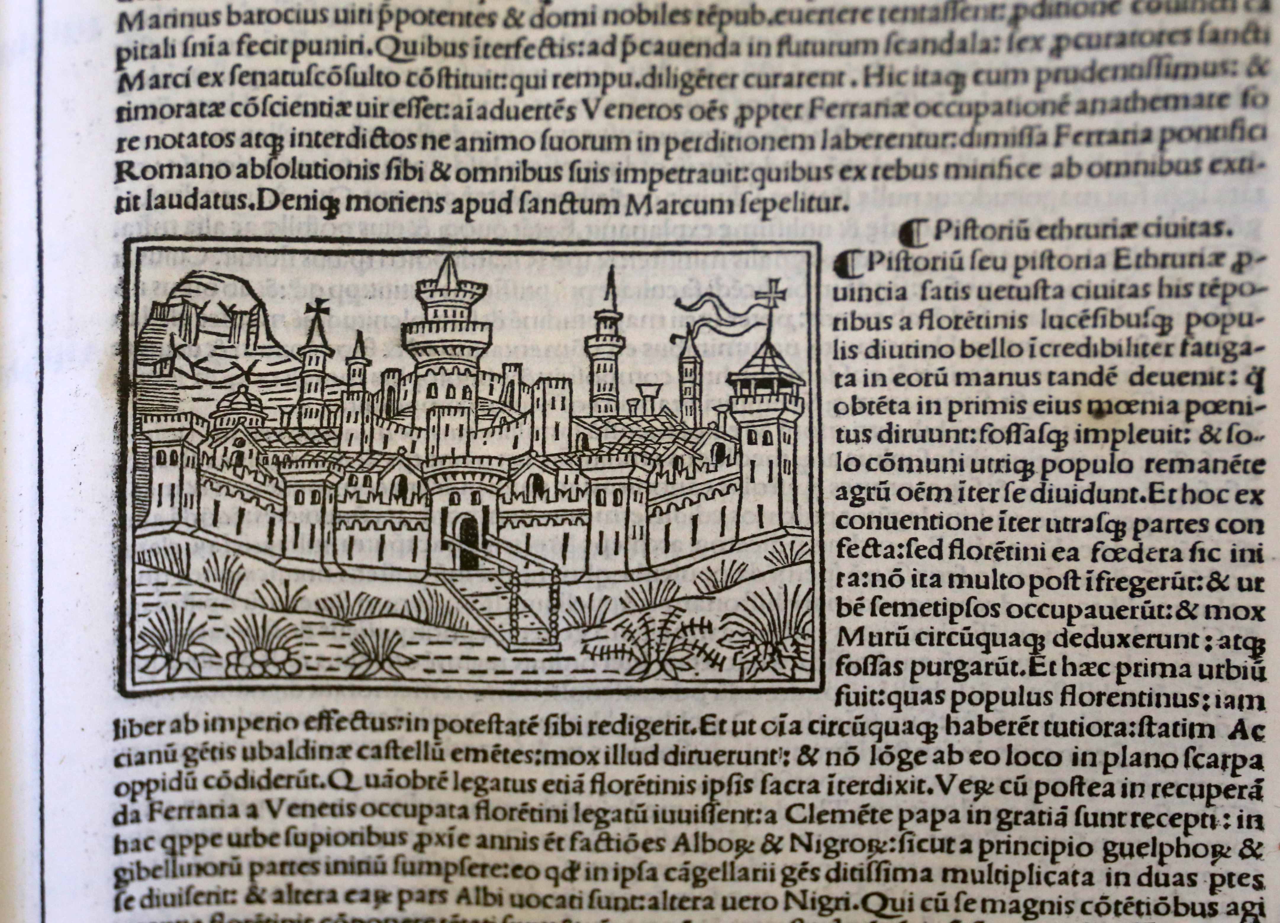 Biblioteca Forteguerriana books